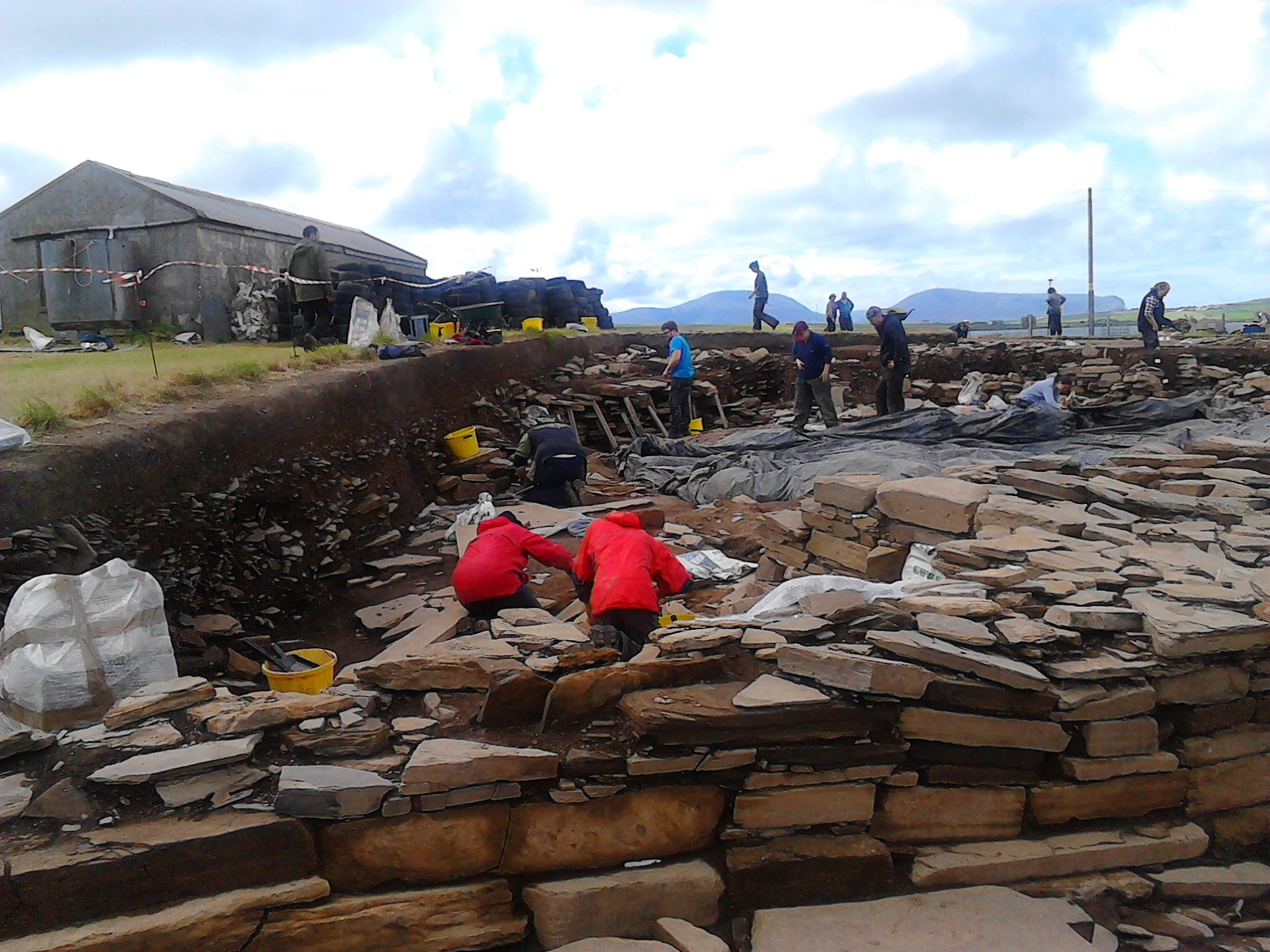 Ness of Brodgar dig 6.7.16. Looking southwest from the corner of the site, good view of structure 10. Two archaeologists in red coats; above the left archaeologist's head is a yellow bucket. Just to the left of the bucket, in the side of the trench, you can see the slowly-emerging entrance to structure #10 as a gap in the stones. The big flat floor stone by the entrance has been nicknamed the 'Welcome Mat'.